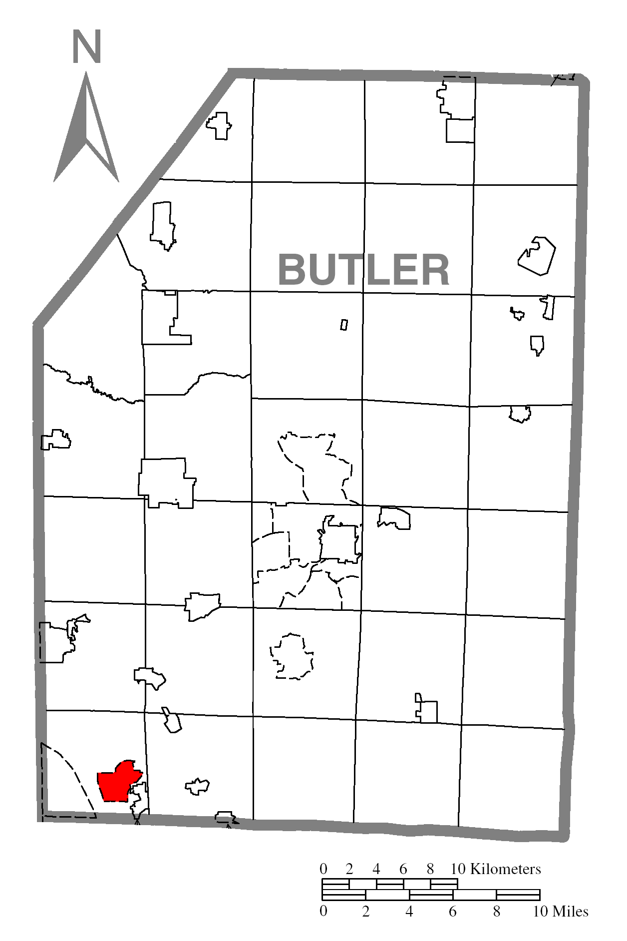 A map of Butler County showing Fox Run, Pennsylvania (alternate) highlighted on the map.